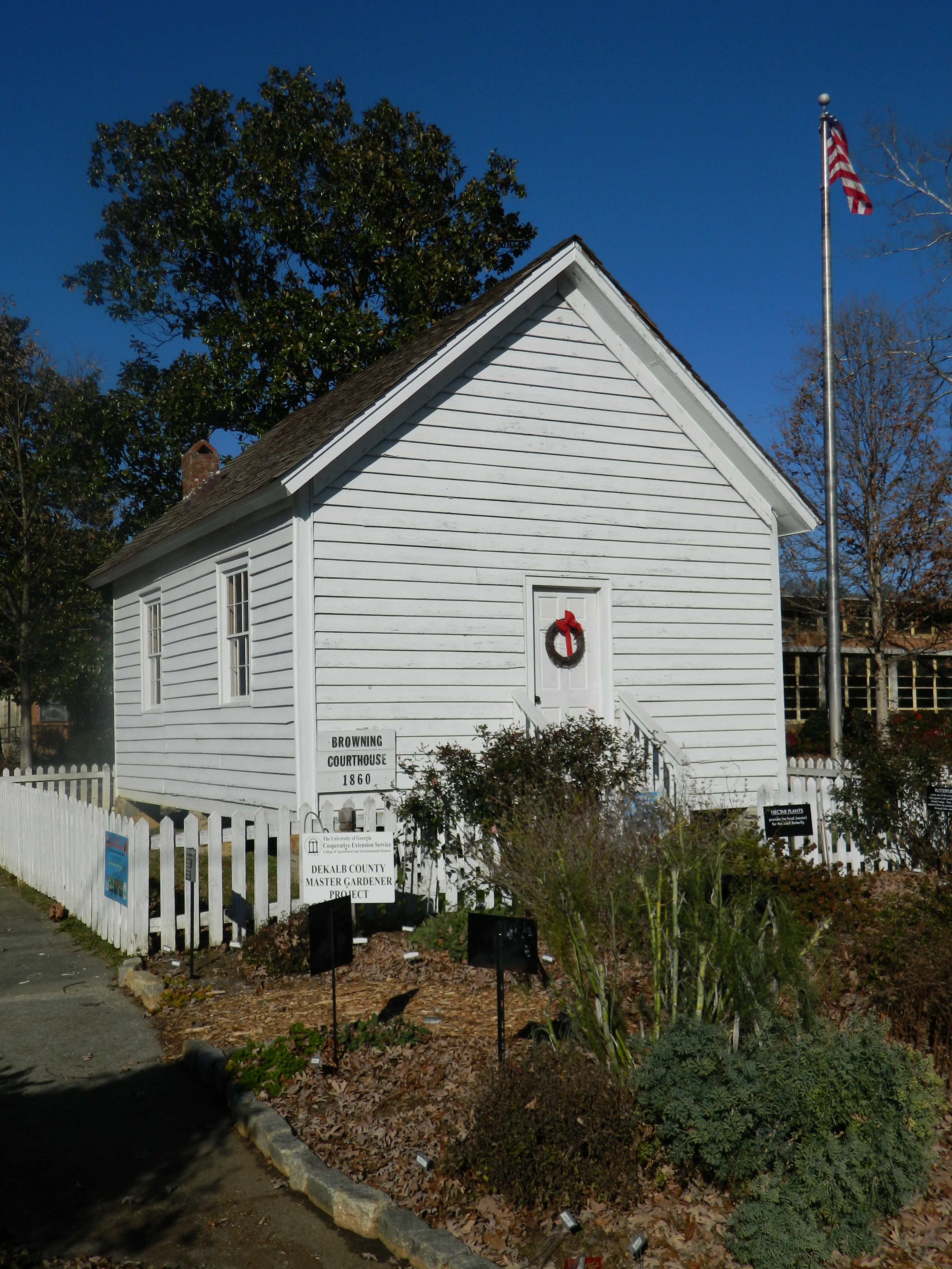 Historic Brownings Courthouse (and Butterfly Garden) - Tucker, Georgia